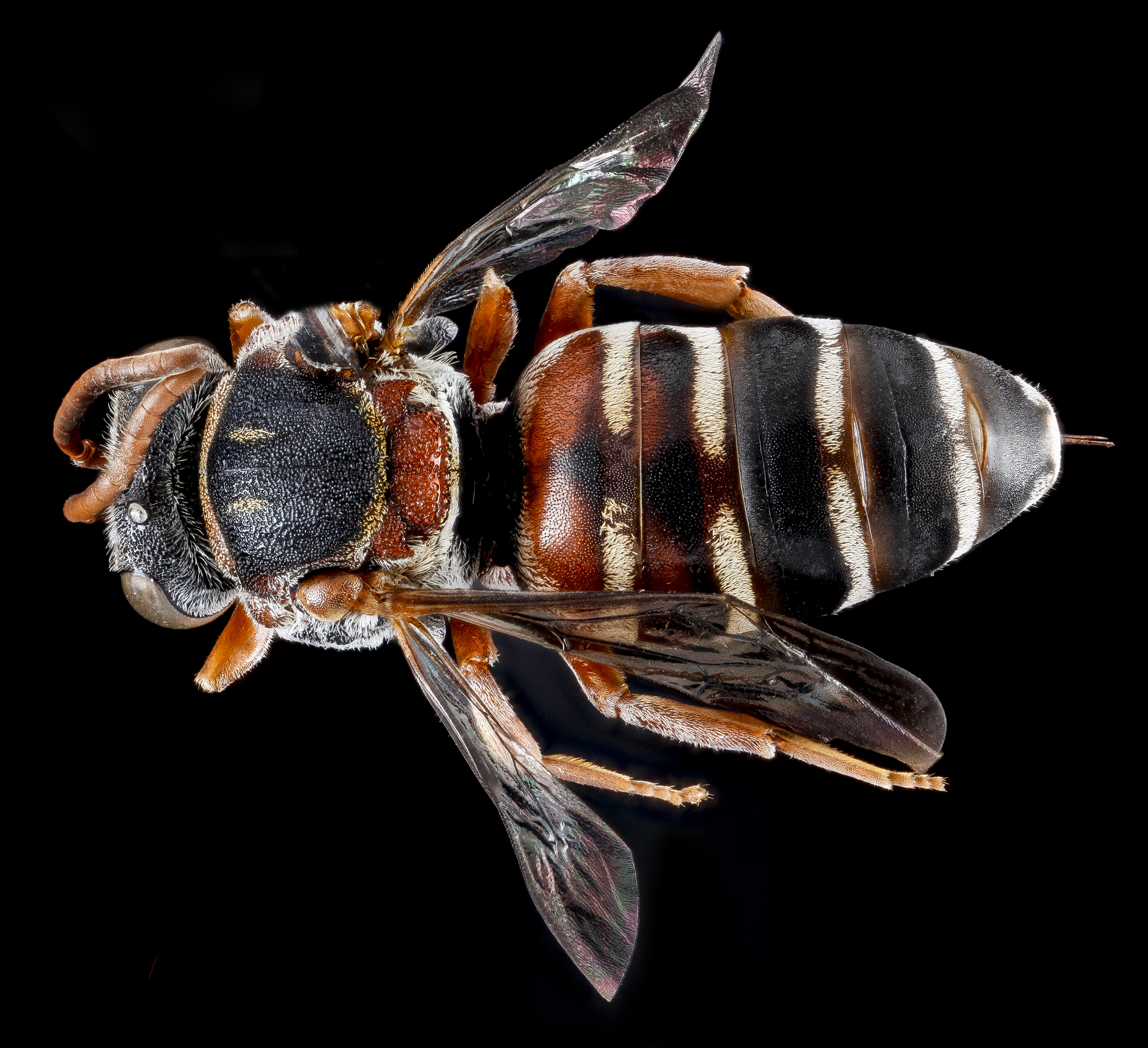 Cumberland Island National Seashore, Georgia...A pretty little nest parasite of Colletes bees